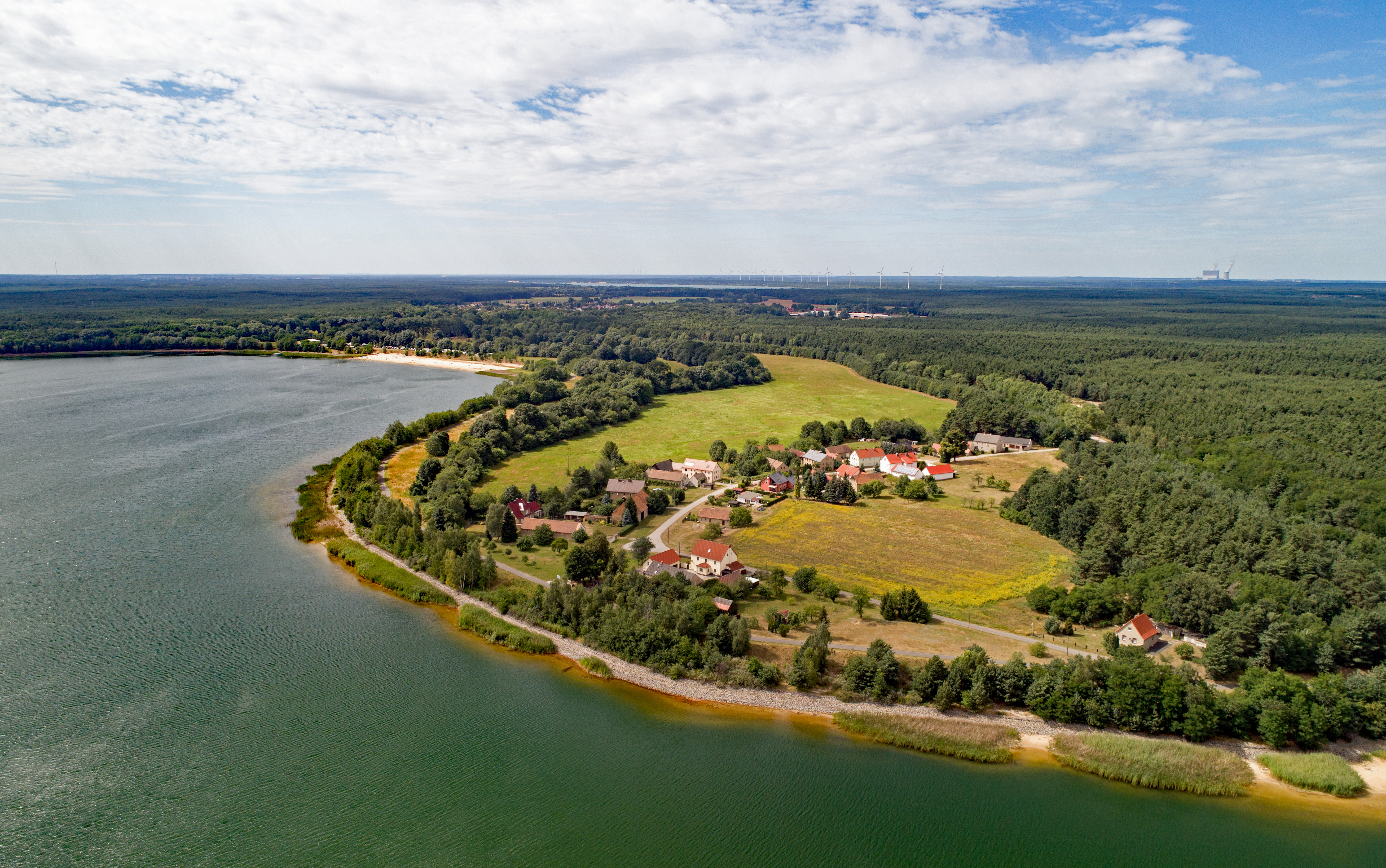 Dreiweibern (Lohsa, Saxony, Germany) Hornjoserbsce: Powětrowy wobraz Třoch Žonow při Třižonjanskim jězoru